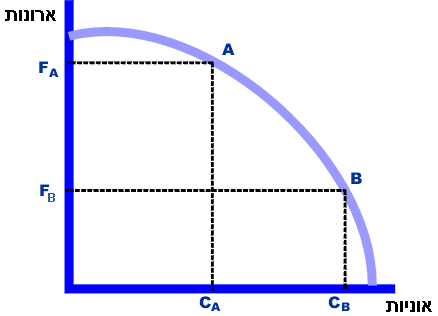 cleaned-up version of the PPF graph from "production possibilities frontier" entry